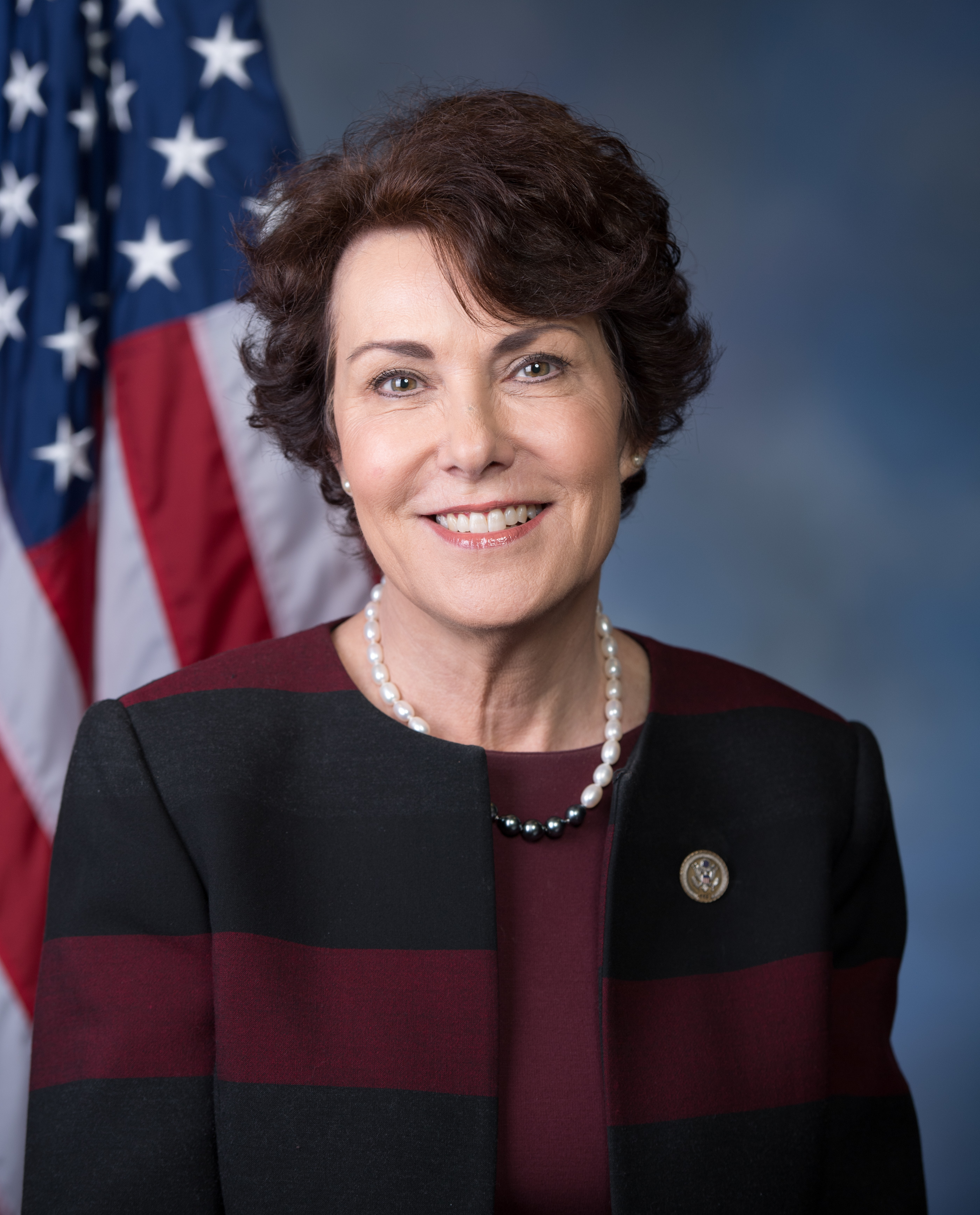 US Representative Jacky Rosen (D-NV) official photo